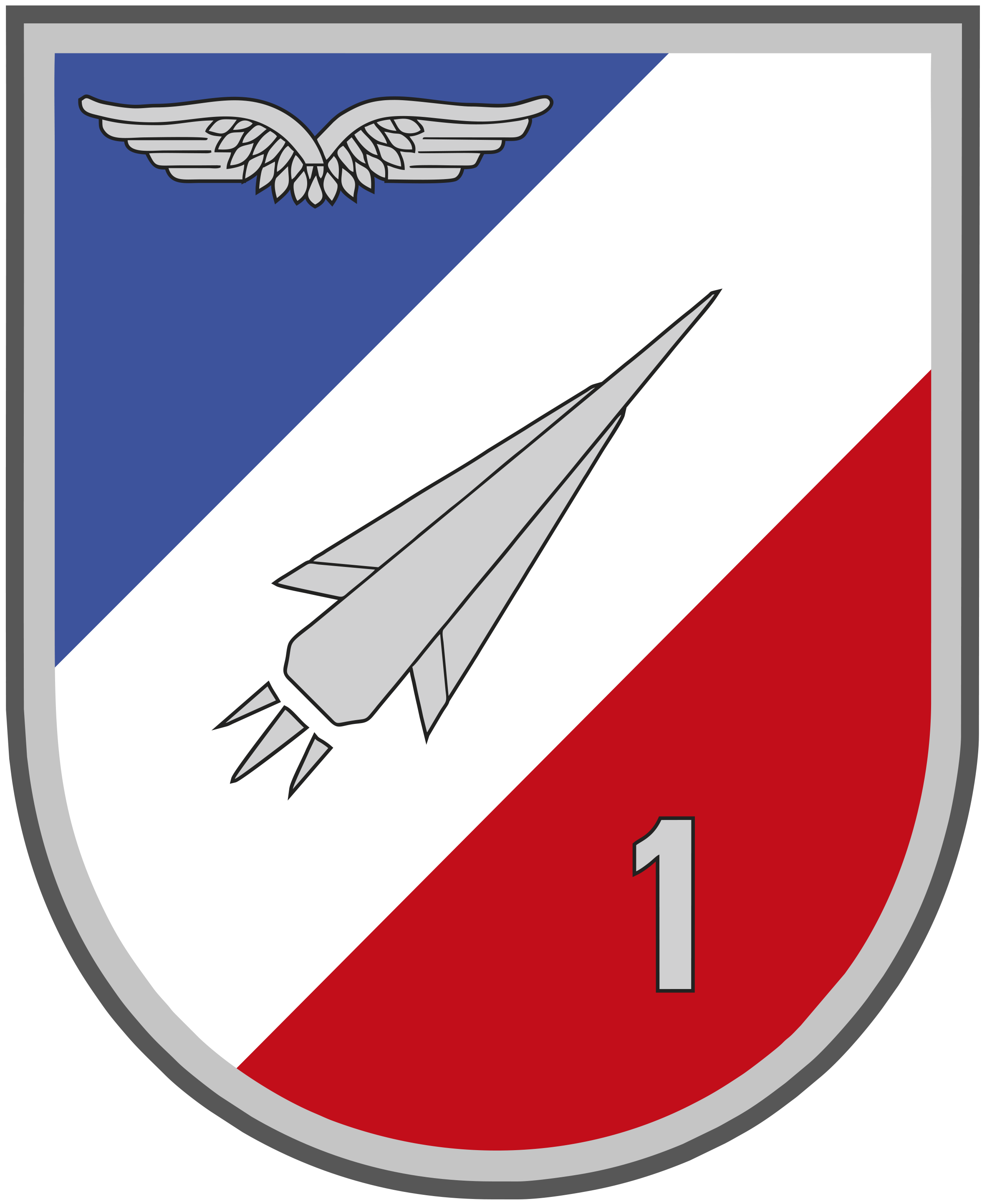 Internal coat of arms Flugabwehrraketengruppe 1 (FlaRakG 1) of the Bundeswehr (Armed Forces of the Federal Republic of Germany). → Remarks on naming and categorization scheme